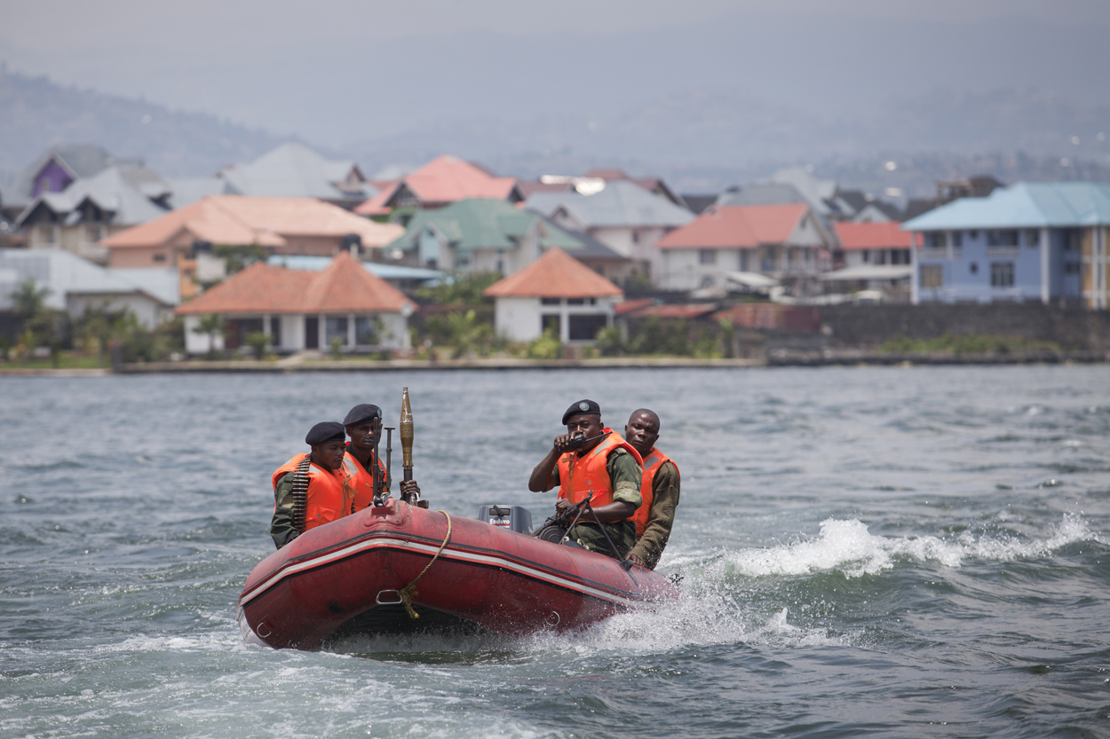 FARDC boat patrol on lake Kivu in Goma, the 2nd of September 2012. Â© MONUSCO/Sylvain Liechti